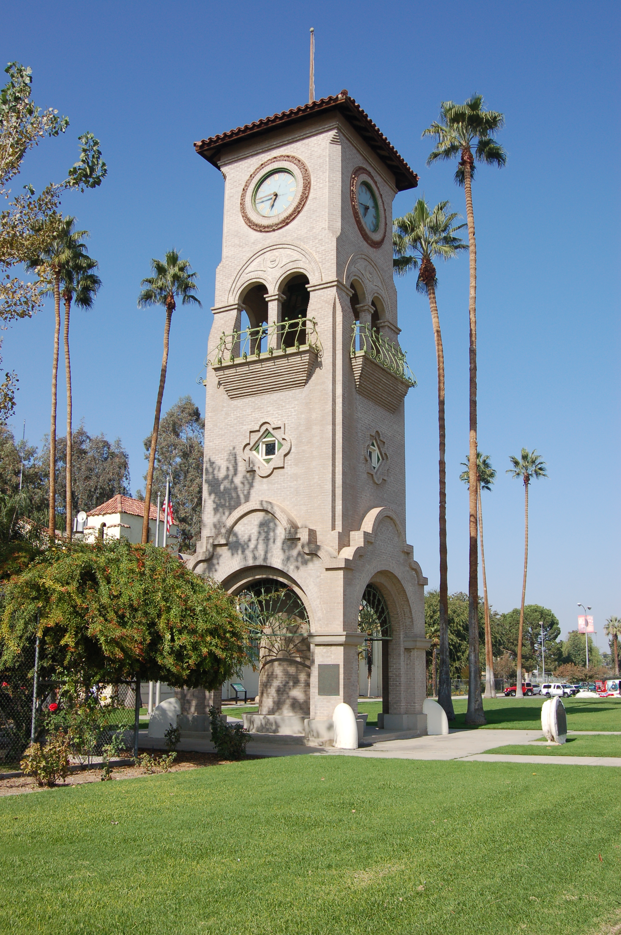 Exterior of the Beale Memorial Clock Tower.